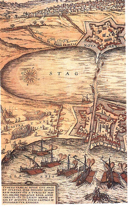 Siege of Tunisia and La Goleta by the Turks in 1573. This image is a part of the image Image:Braun hogenberg tunis 1535.jpg.